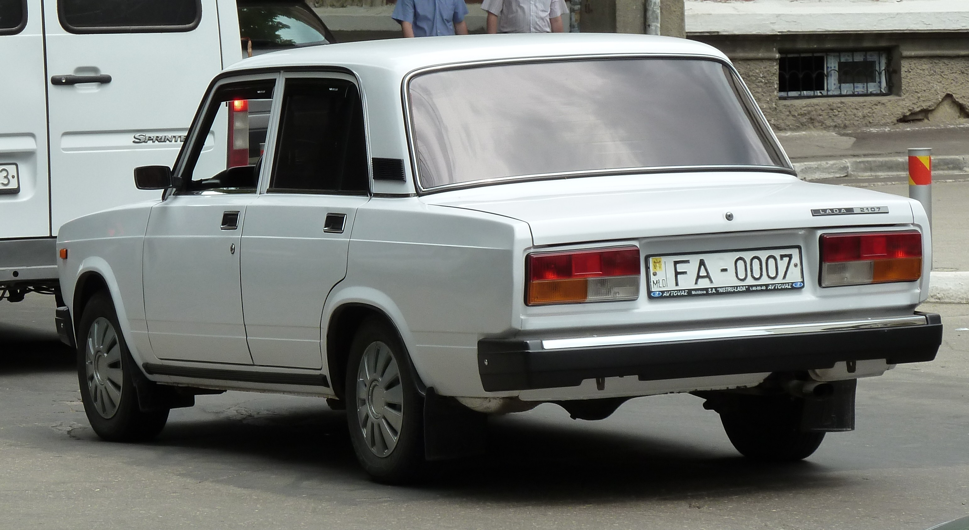 Lada 2107 with early military license plate from Moldova, FA = Forțele Armate (Chișinău 2012)